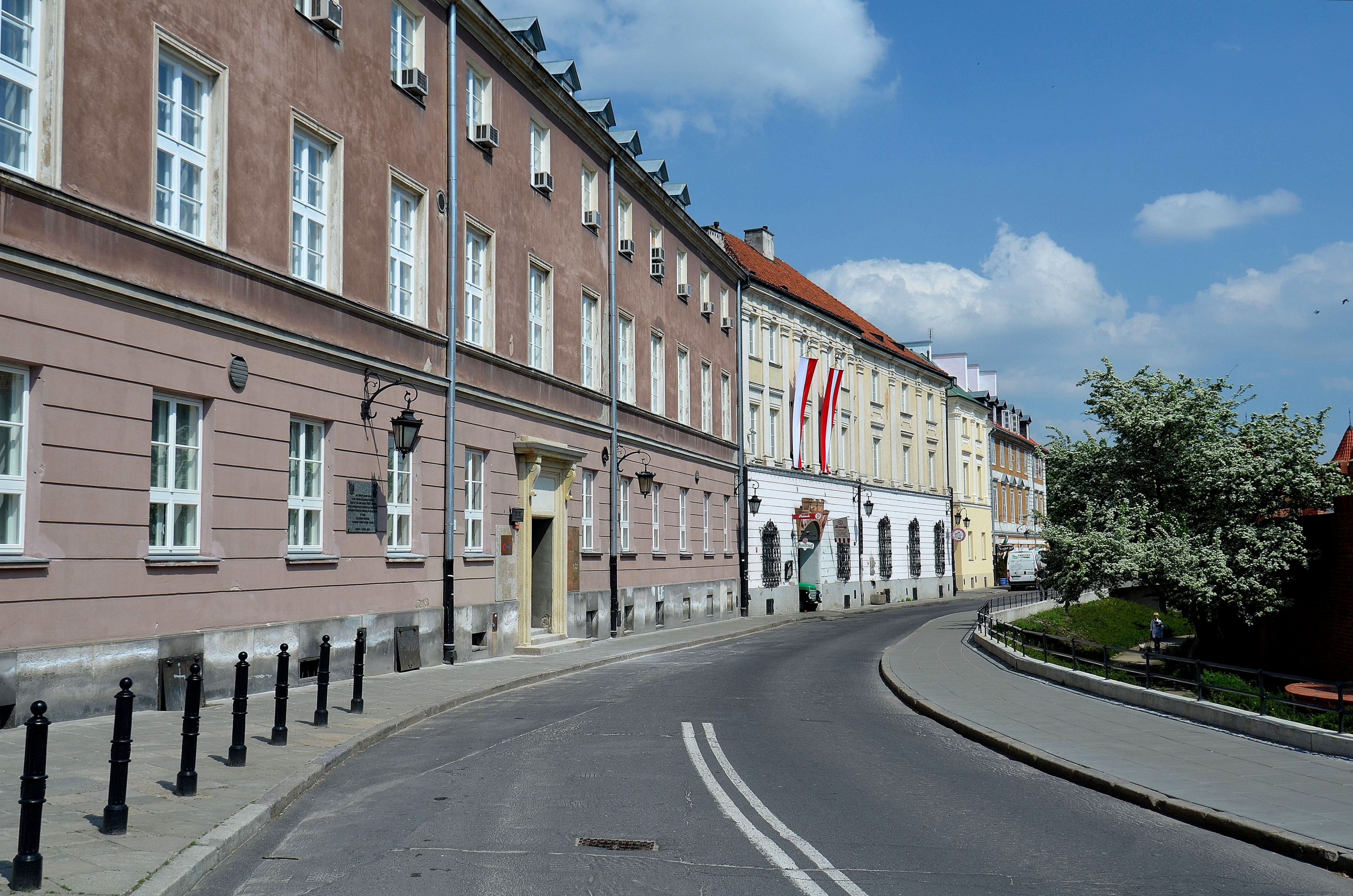 Podwale Street near Kilińskiego Street